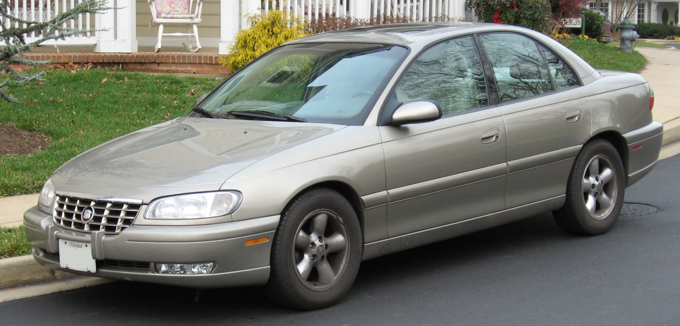 1997-1999 Cadillac Catera photographed in USA.